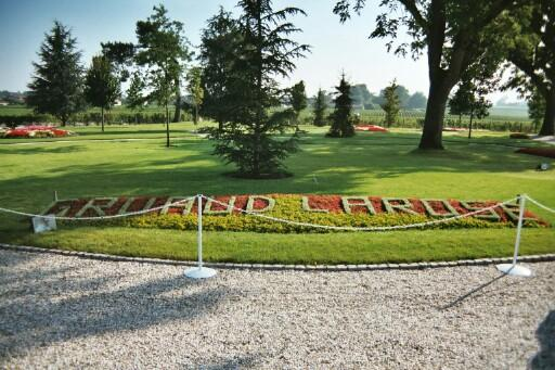 Château Gruaud-Larose